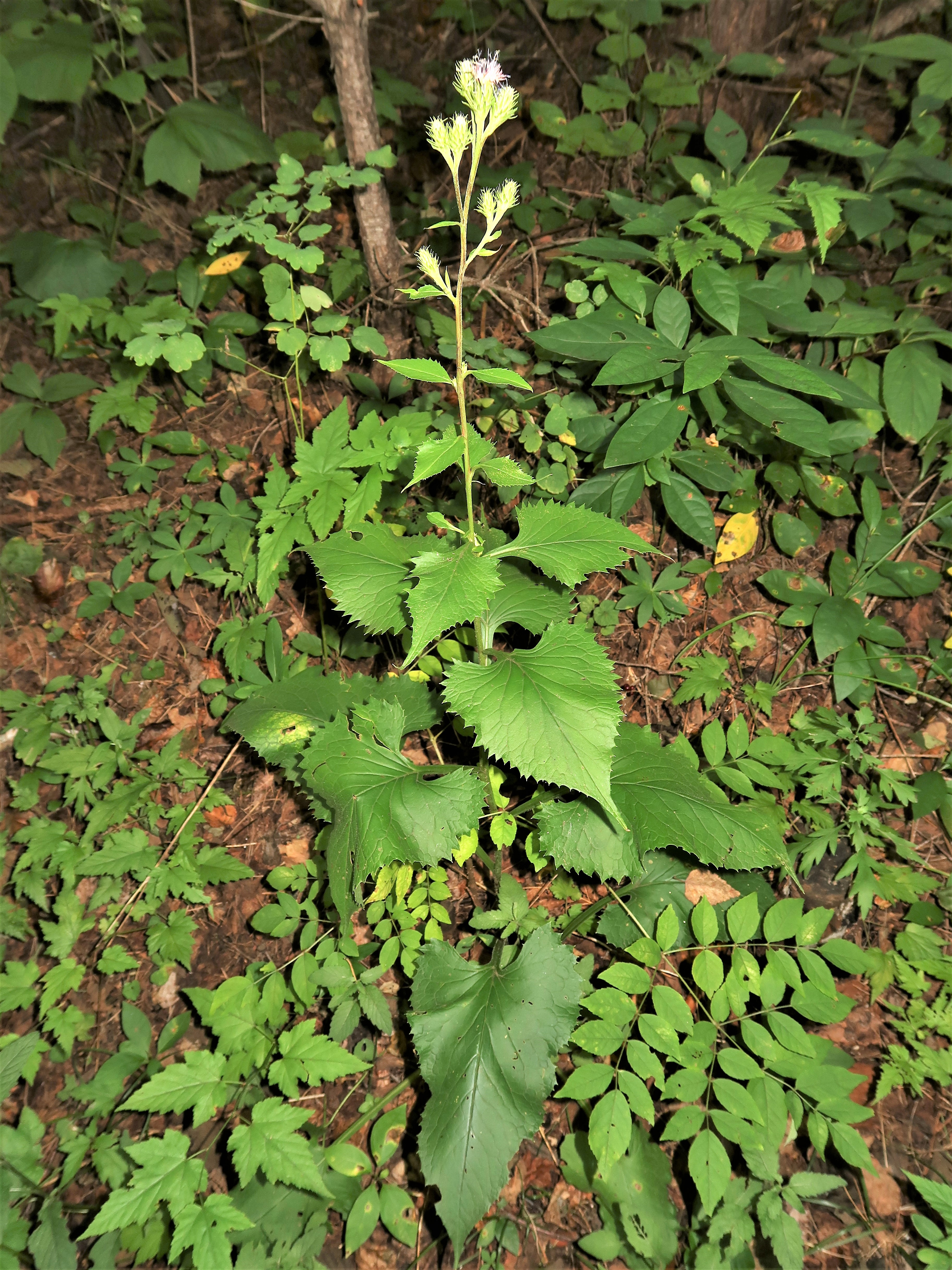 Saussurea sugimurae, Mount Hashikami-dake, Aomori pref., Japan